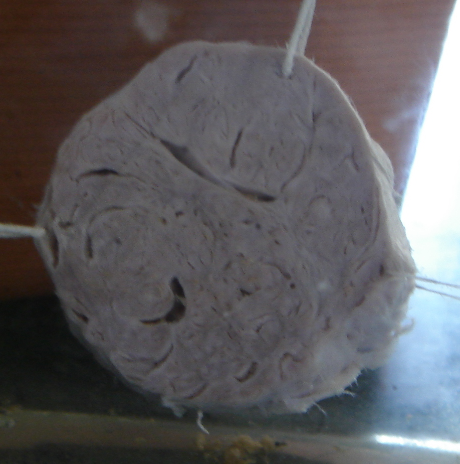 Cut section of breast showing fibroadenoma.